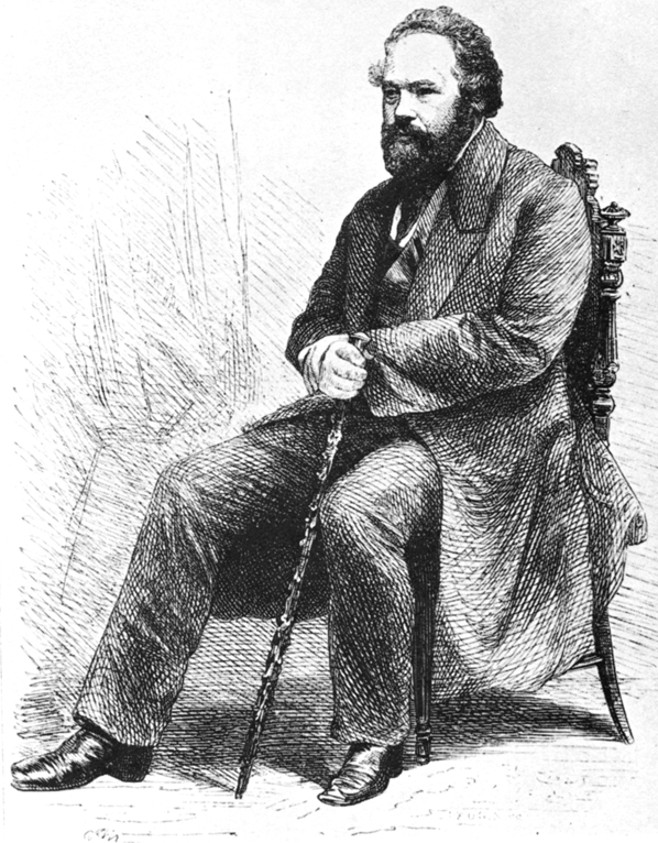 Wood engraving depicting Mikhail Bakunin.